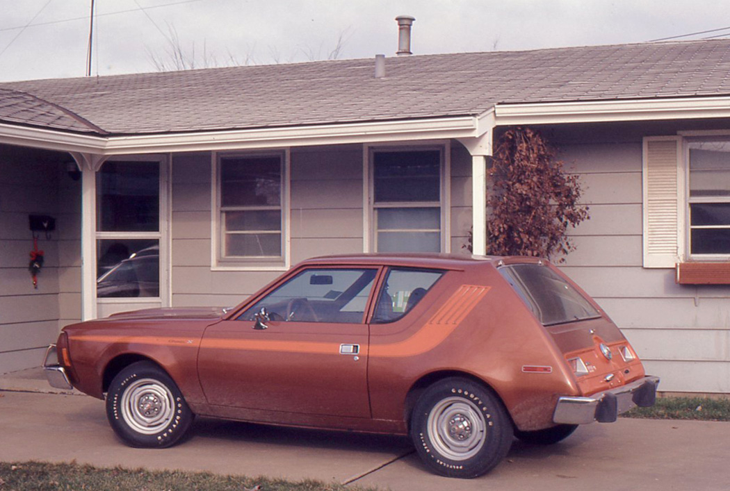 The Gremlin was made by American Motors Corp. in 1970-1978, AMC was formed by a merger of the companies that made Nash and Hudson cars. It bought the company that made Jeeps. Chrysler Corp. later bought AMC.